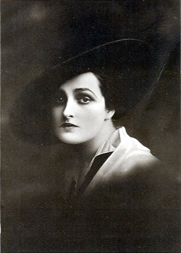 Postcard, undated. Title: "Fern Andra"